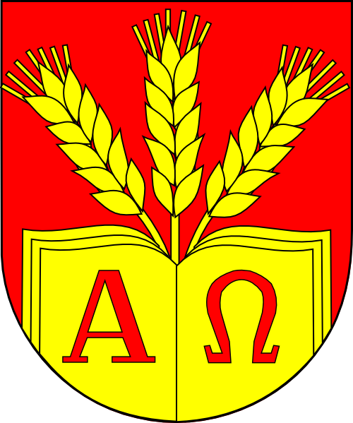 Coat of arms (shield only) of Stanisław Wojciech Wielgus, bishop of Płock, Poland (1999 - 2007), archbishop of Warszawa, Poland (2007 - 2007).